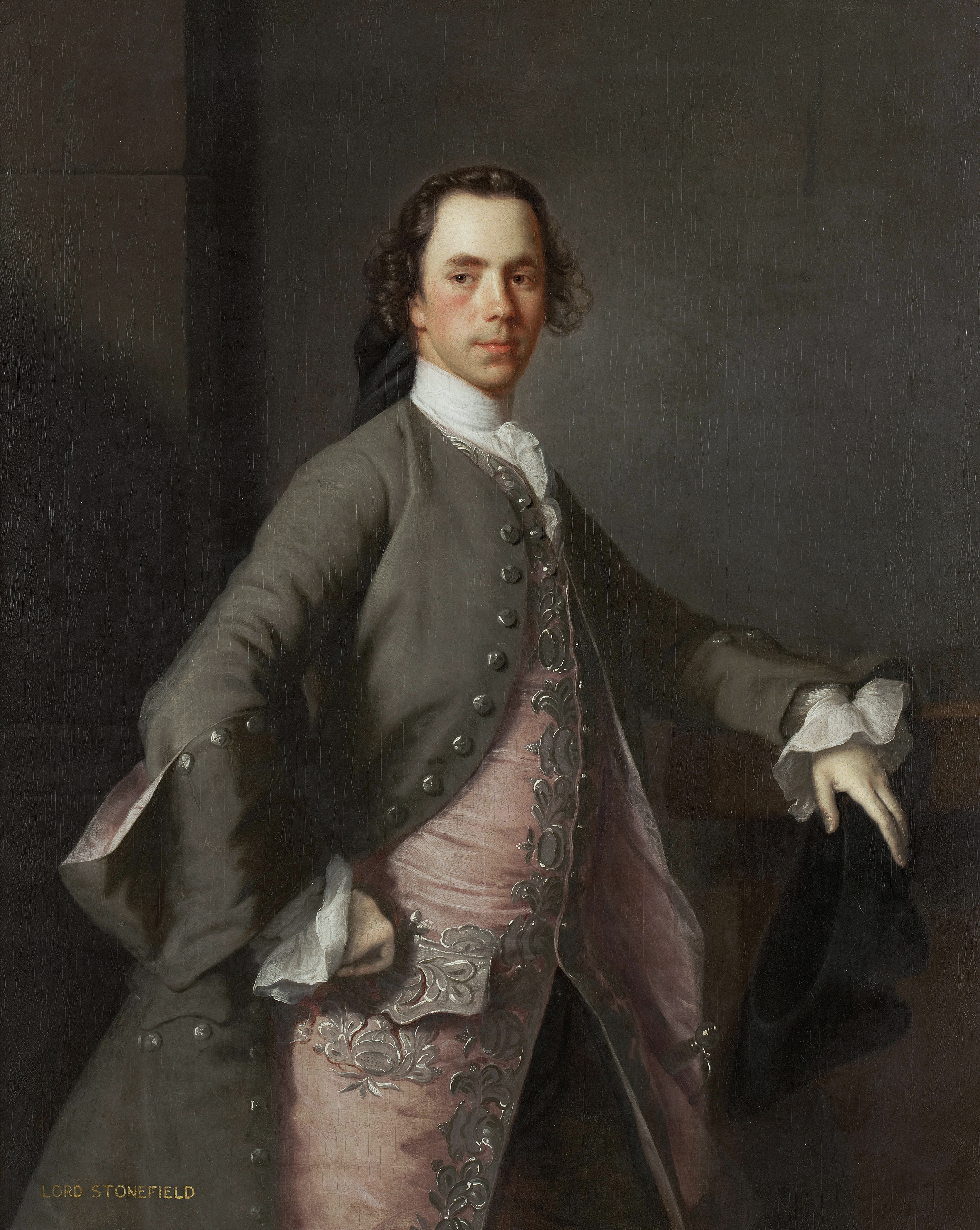 Portrait of John Campbell (Lord Stonefield, died 1801) by Allan Ramsay, 1749